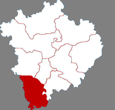 Location of Jialing District in Nanchong City, China